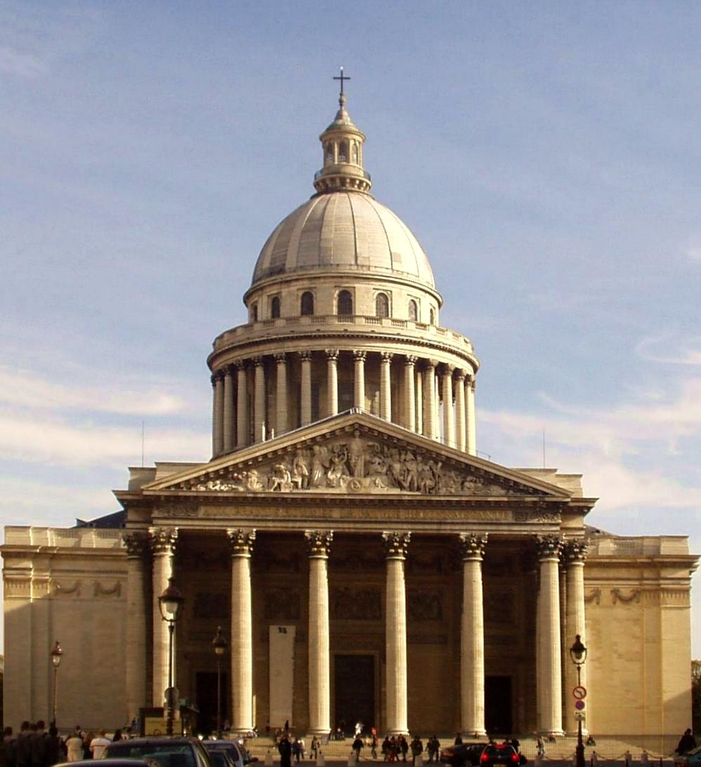 Front view of the Pantheon in Paris (France)